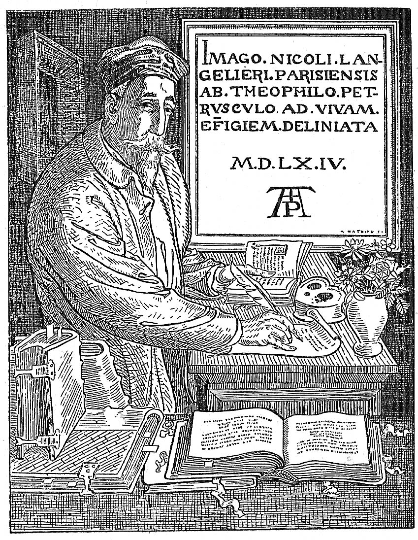 Caricatyre of Anatole France